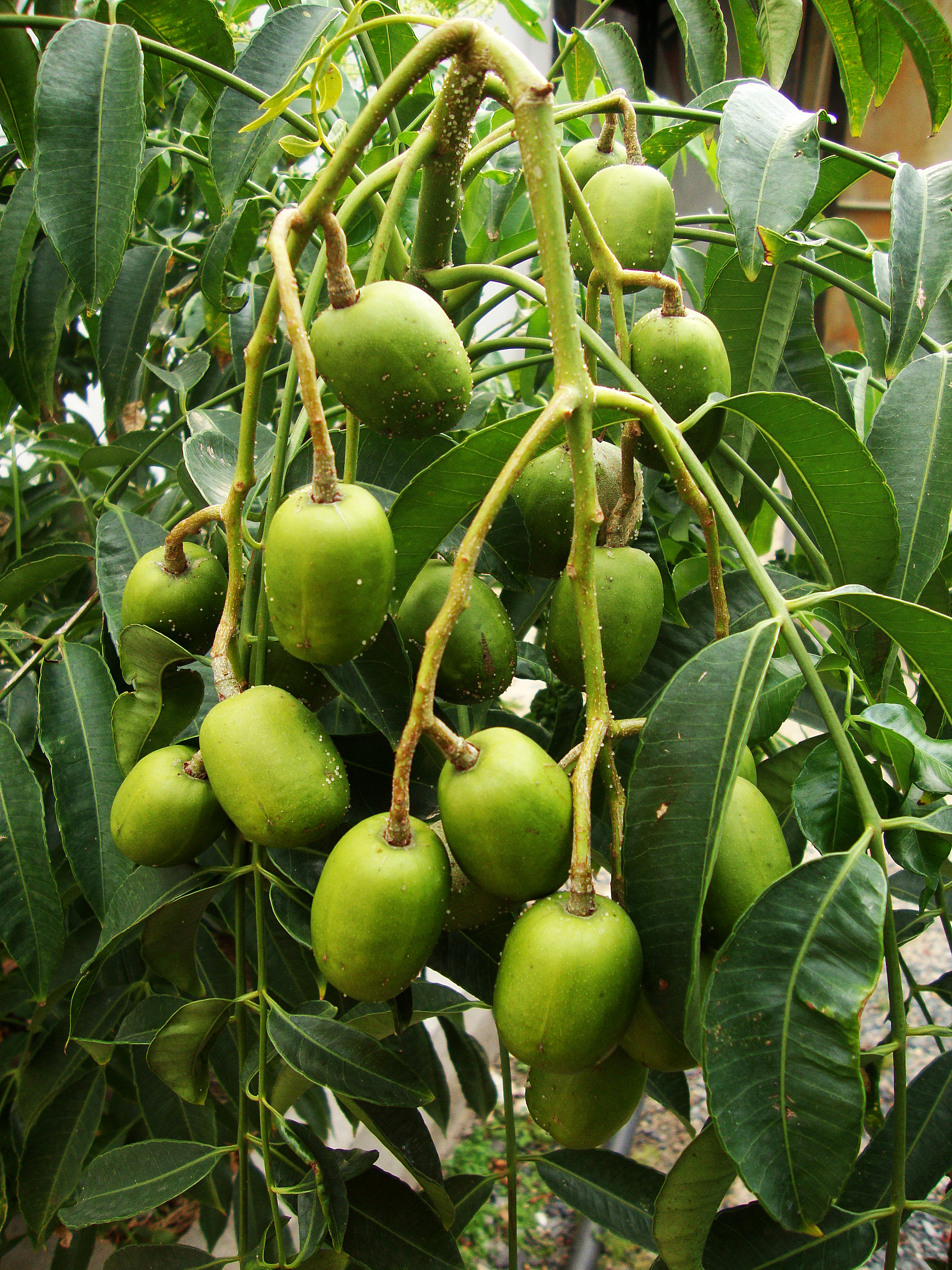 Spondias dulcis Sol. ex Parkinson, 1773